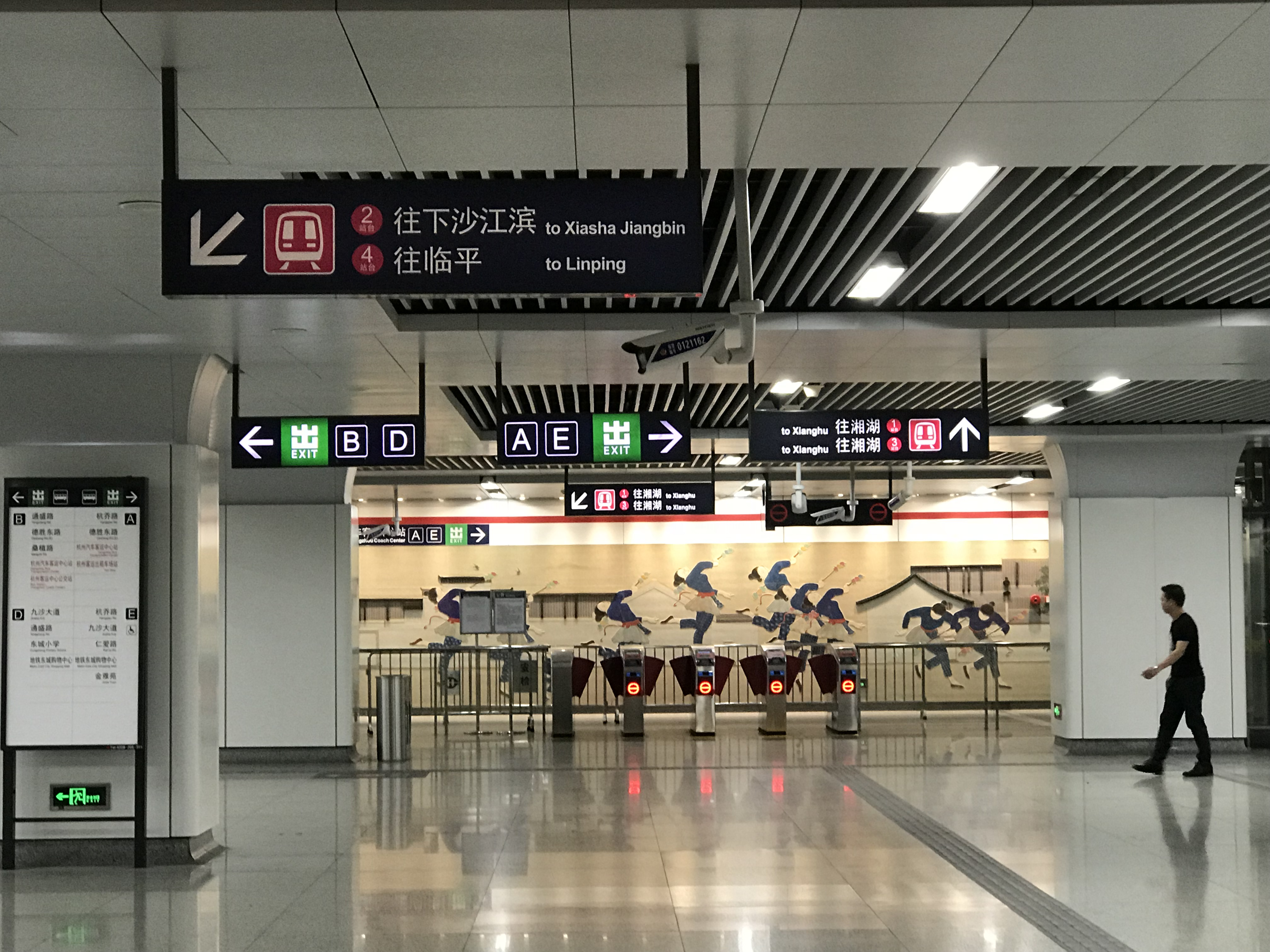 201806 Signs at Coach Center Station. Currently the most MTRised station among all Hangzhou MTR stations.